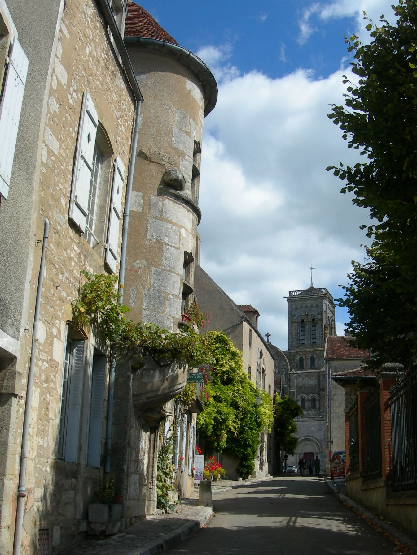 15th century house in the main street.)